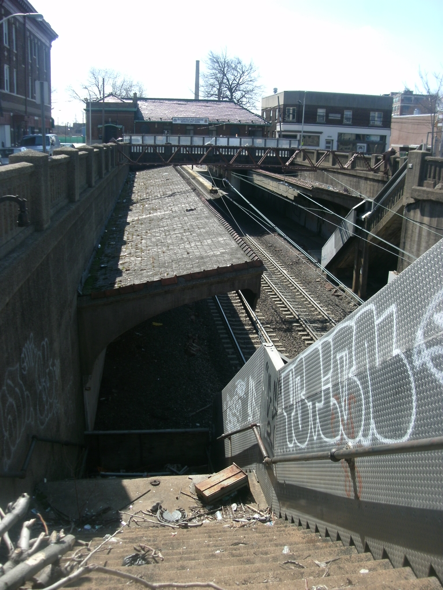 This rather neglected part of the Watsessing Avenue station in Bloomfield, New Jersey remains noticeable just short of the current station depot, visible in the distance.